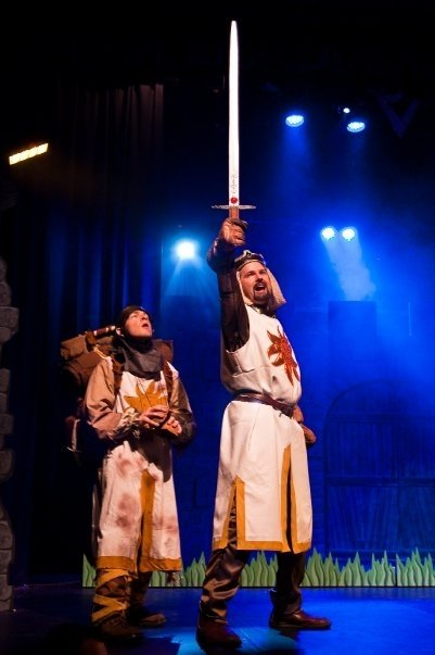 Patsy & King Arthur in the 2009 production of Monty Python's Spamalot.